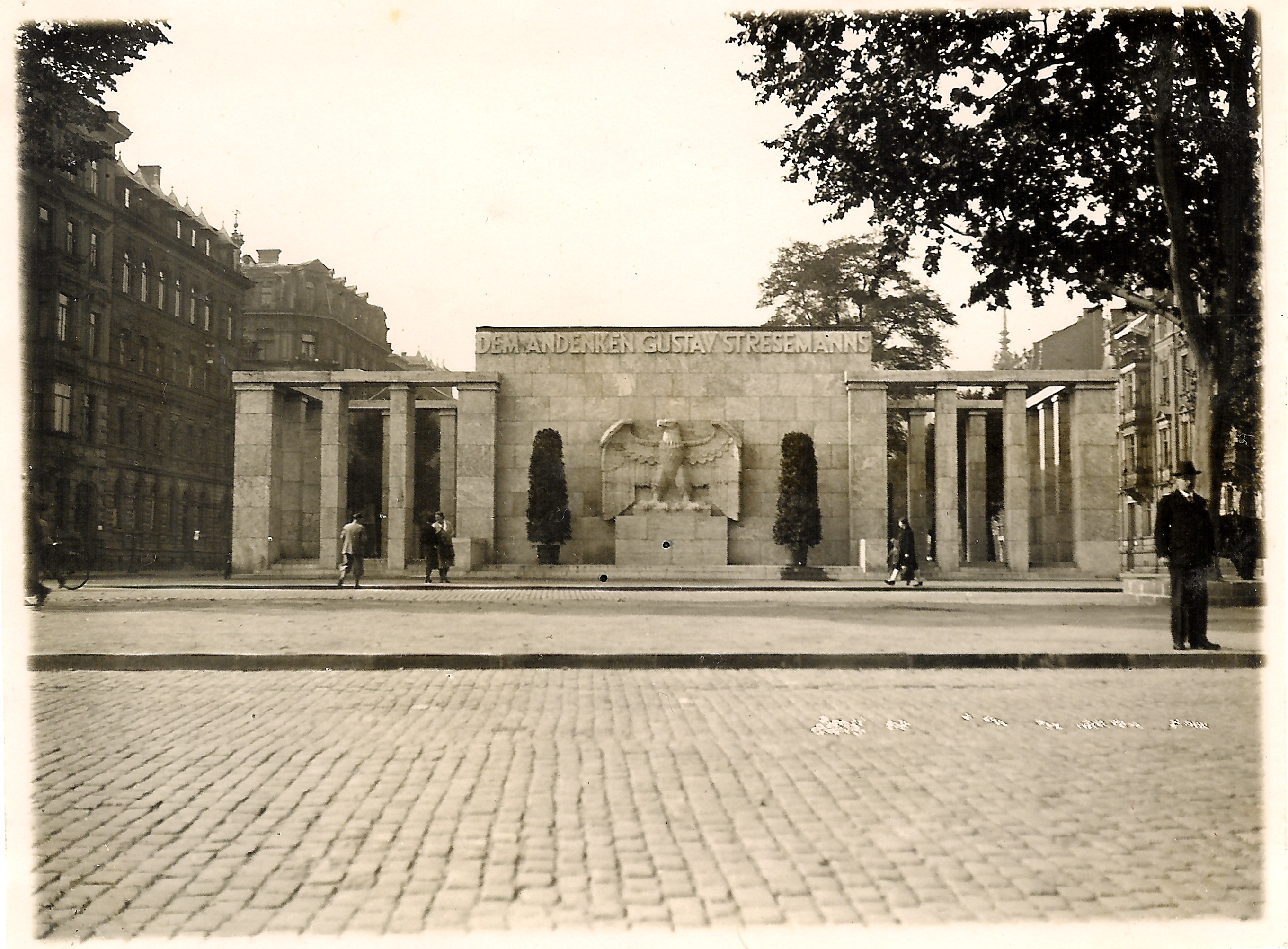 Gustav Stresemann Memorial in Mainz, Germany in October 1931. Built in July 1931, destroyed in 1935